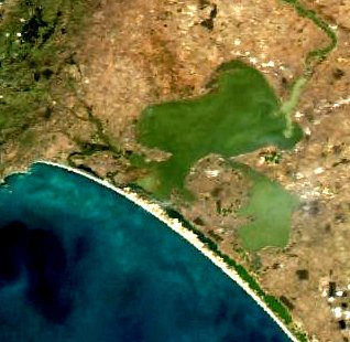 Lower Lakes of South Australia as viewed from space in May 2004